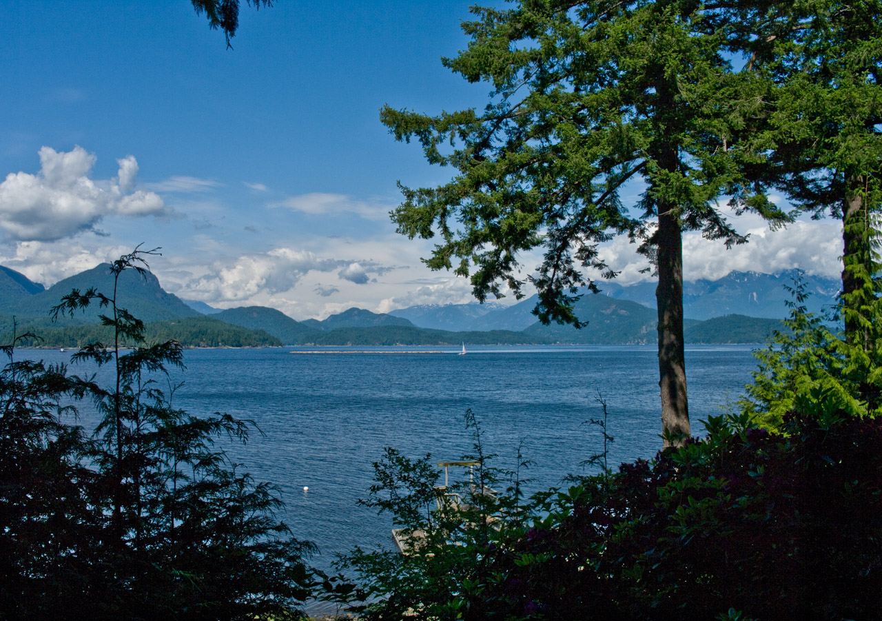 Taken from among the trees on Keats Island; Gambier island is visible across the water.